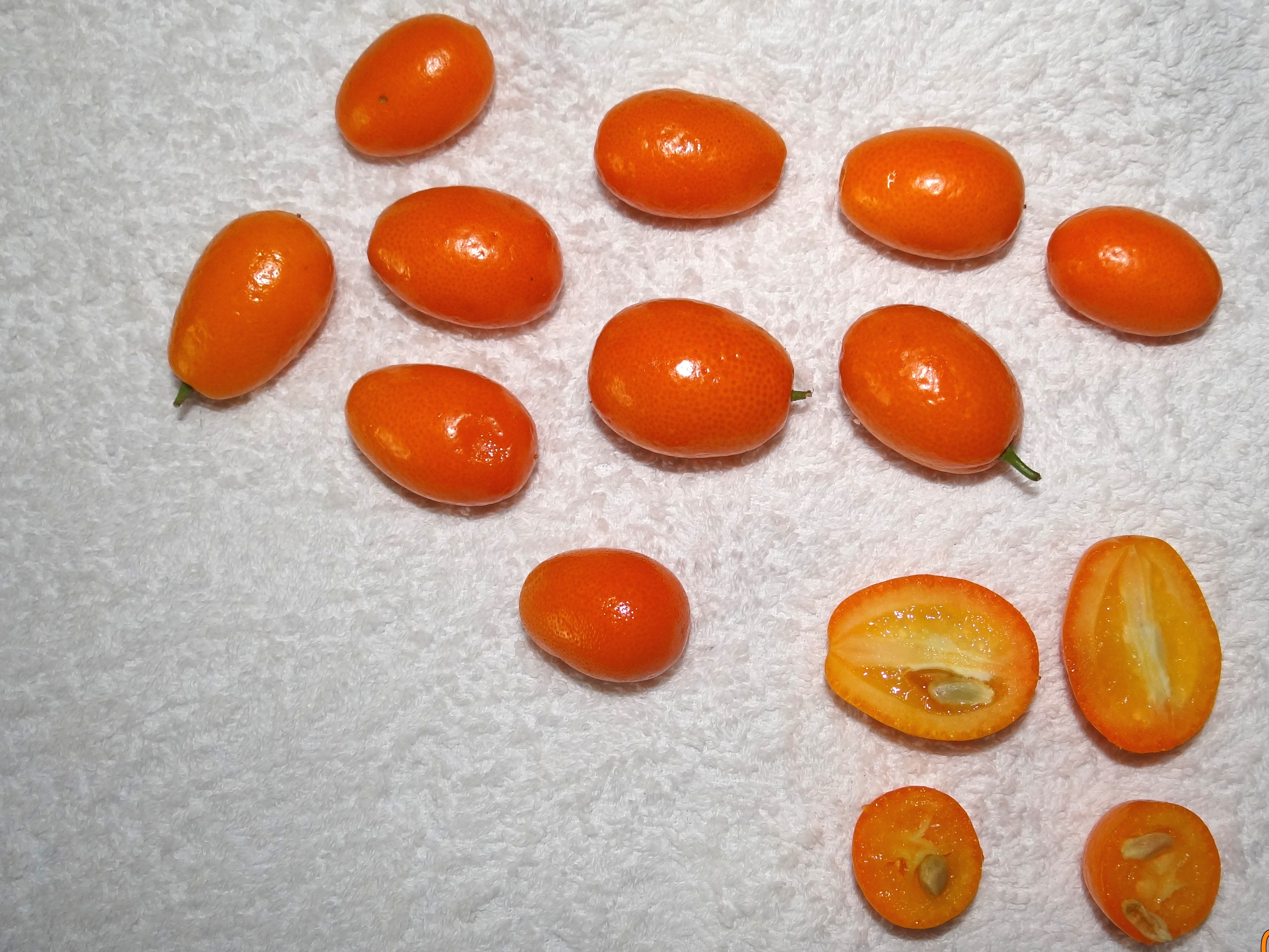 Kumquat fruits Fortunella margarita